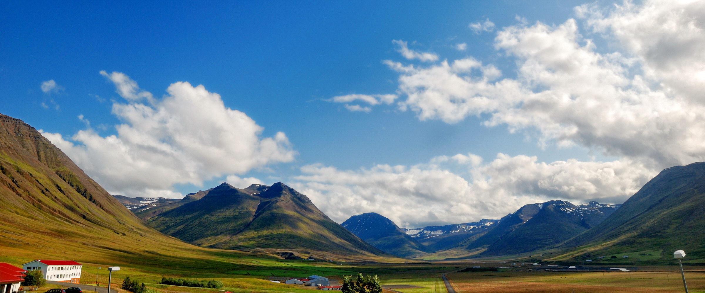 One of the most typical "U" shaped glacial valley [1]